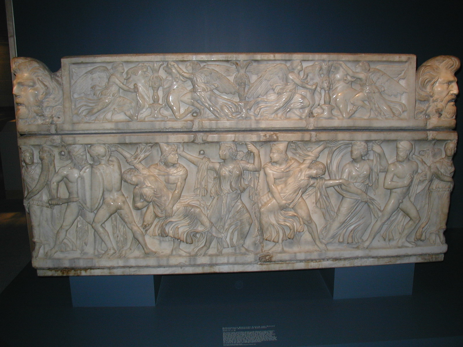 Marble Roman sarcophagus from around 160 CE depicting Castor and Pollux seizing daughters of Leucippus, currently in the Walters Art Museum in Baltimore, Maryland, U.S.A.